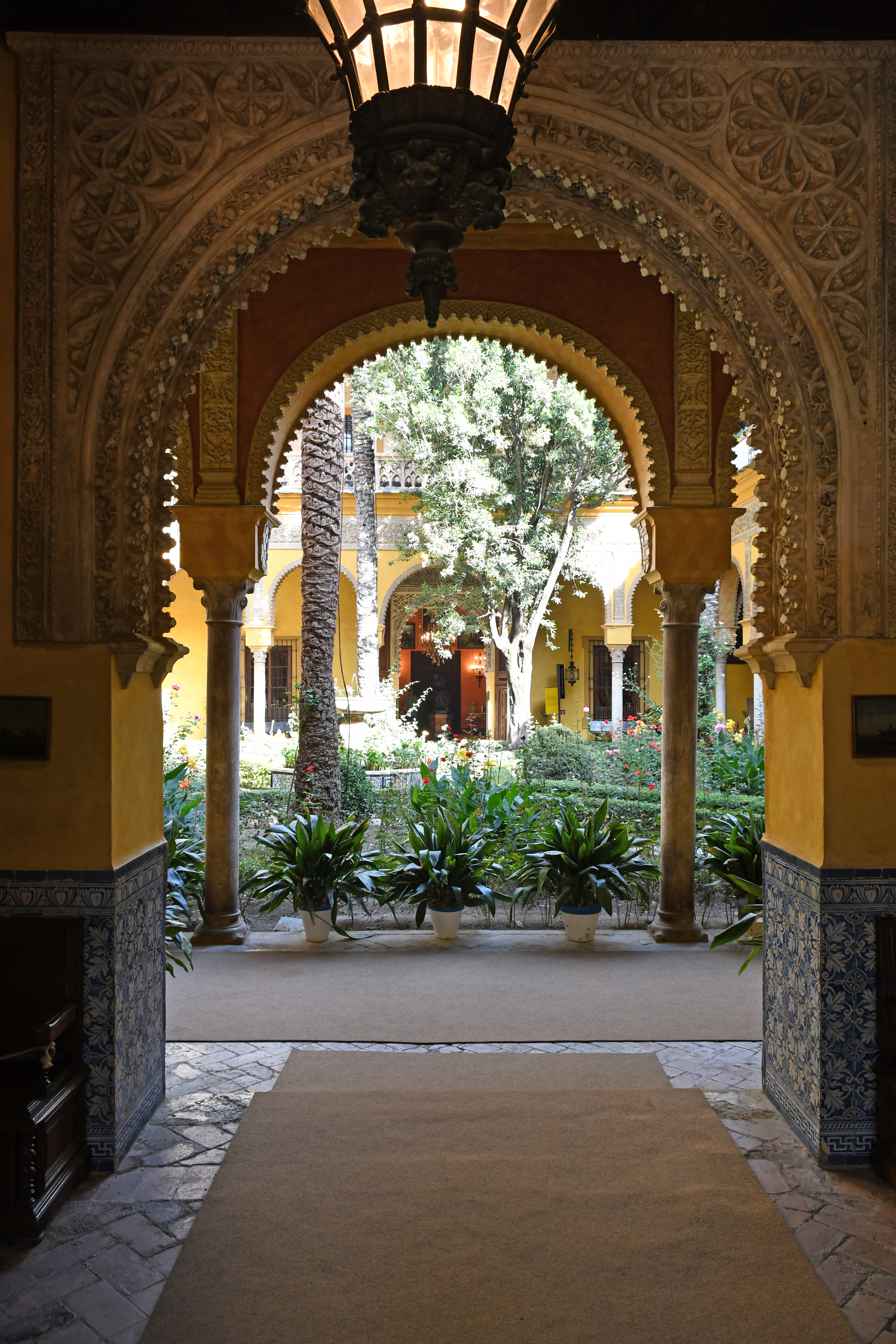 The main patio of the Palacio de las Dueñas (Seville, Spain).